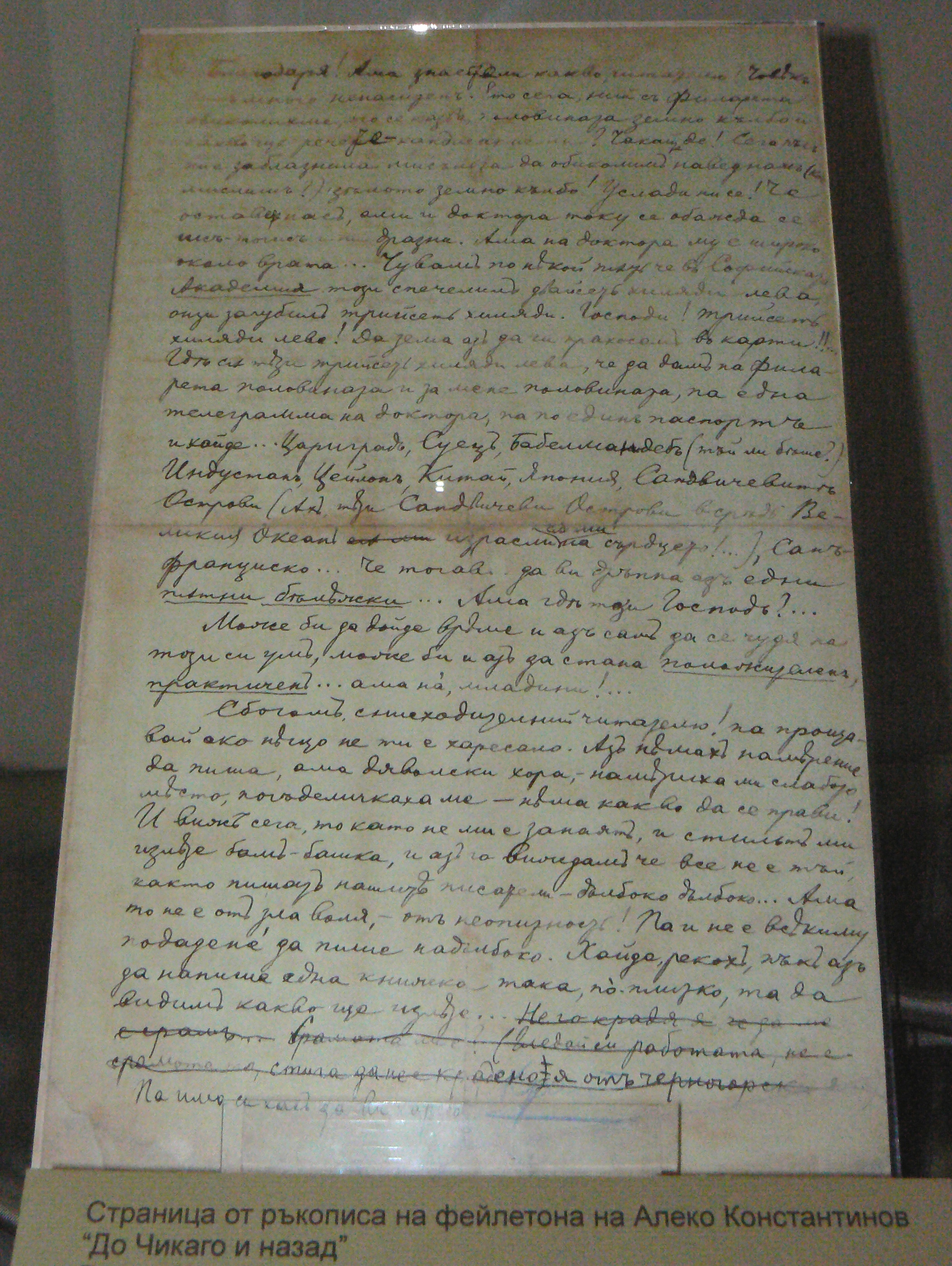 Page from the manuscript of the "To Chicago and back" by Aleko Konstantinov. Exhibit of the National History Museum of Bulgaria